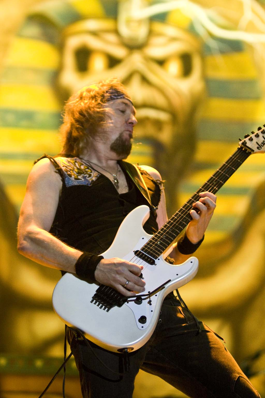 Adrian Smith